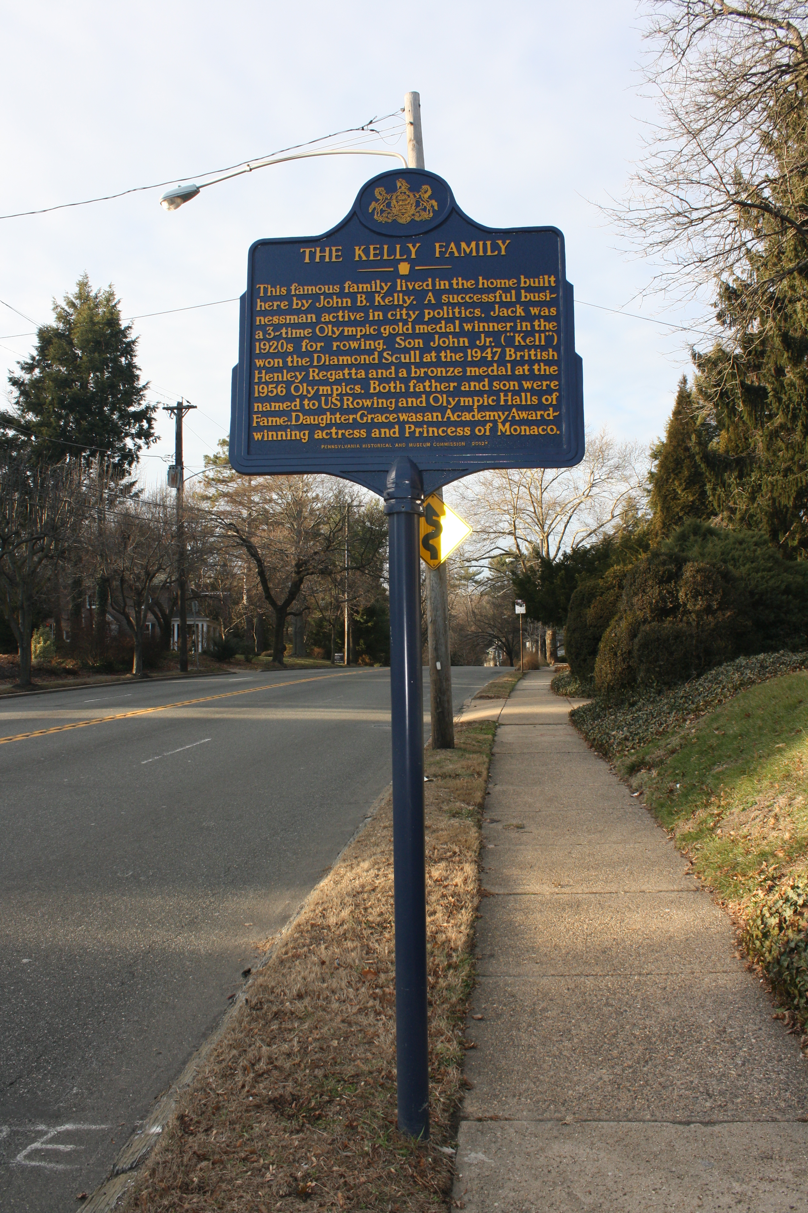 The Kelly Family House in East Falls section of Philadelphia (3901 Henry Avenue) was built by John B. Kelly, Sr. in 1929. Grace Kelly, actress and Princess of Monaco grew up here. Here Prince Rainier III, Prince of Monaco proposed her in 1955 Christmas. The historic sign in front of the house.